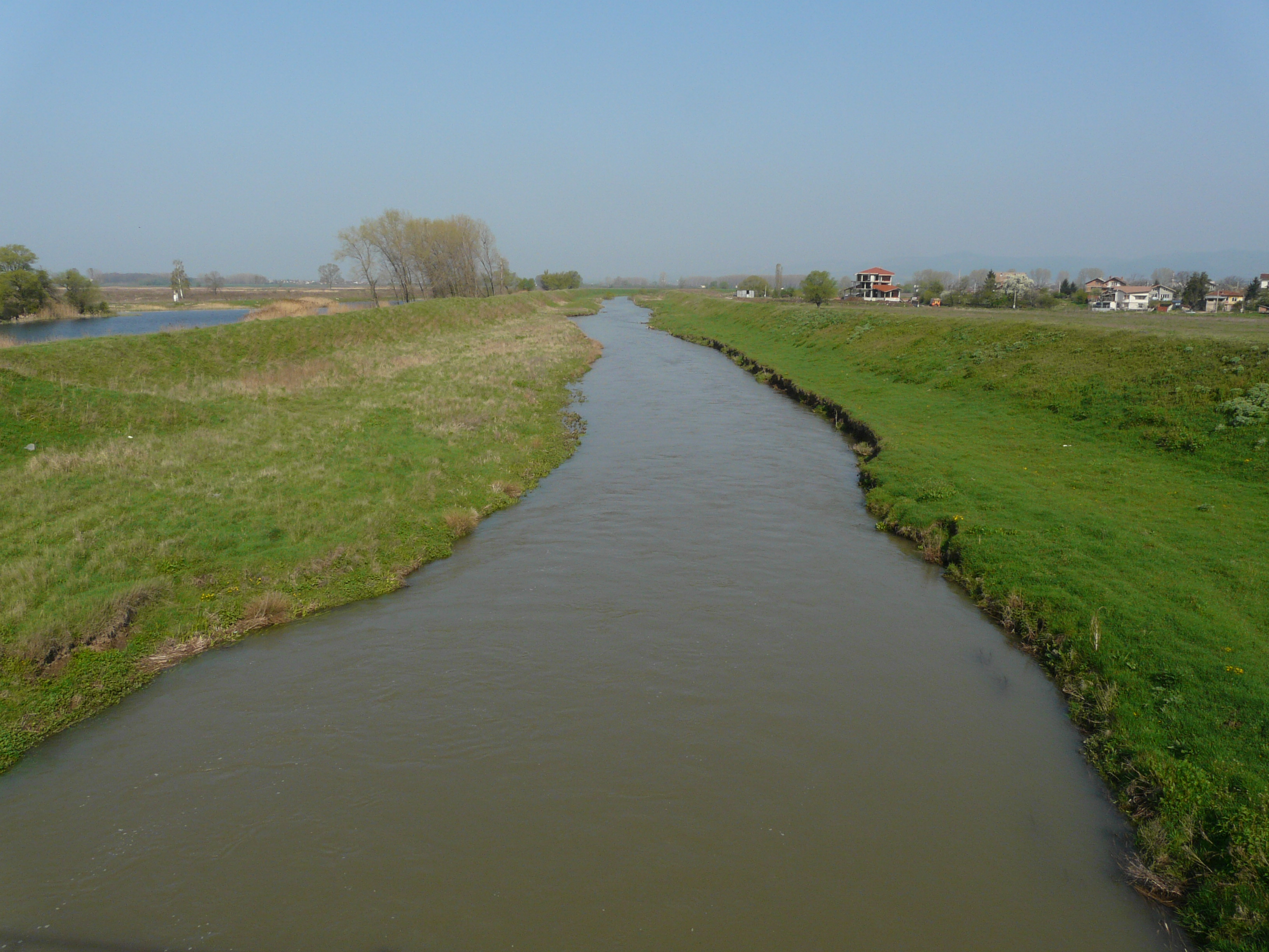 Lesnovska River near Negovan, Bulgaria